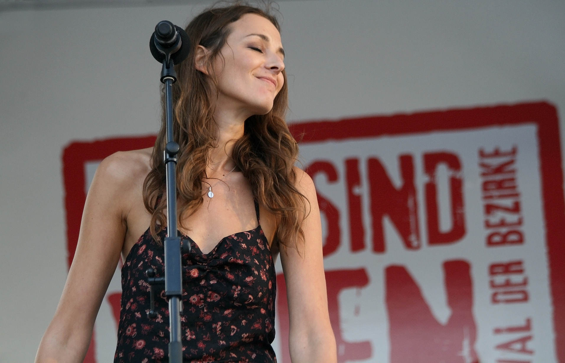 Singer Katika at the festival Wir sind Wien – Festival der Bezirke (Meidlinger Platzl in Vienna